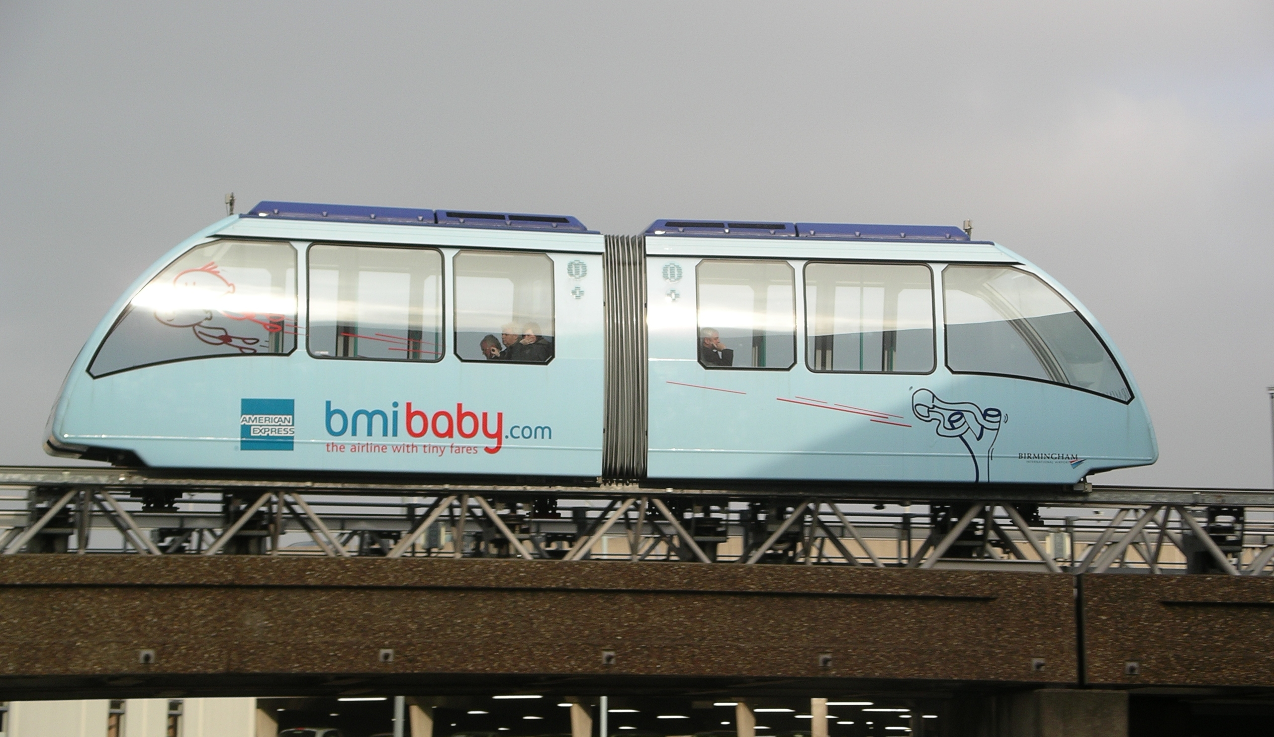 Birmingham International airport {UK} - rapid transit system